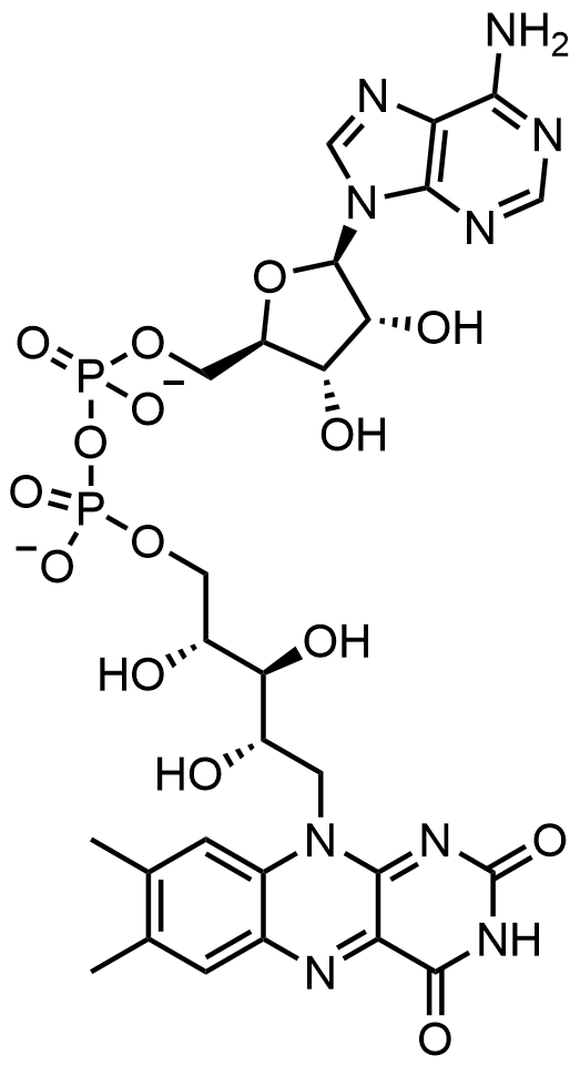 Structure of flavin adenine dinucleotide